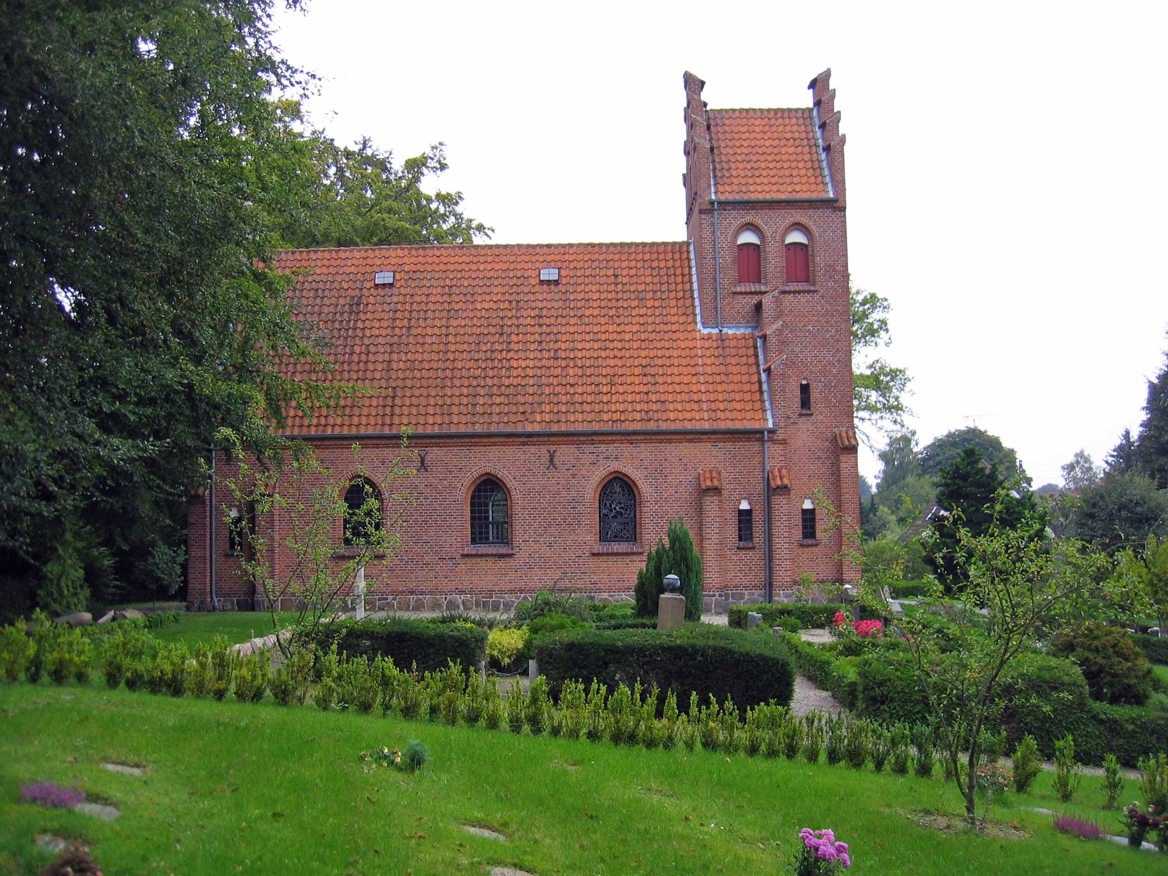 Gadevang Church, Gadevang church district, Holbo, Strø & Lynge-Frederiksborg Herred, Frederiksborg County, Denmark.